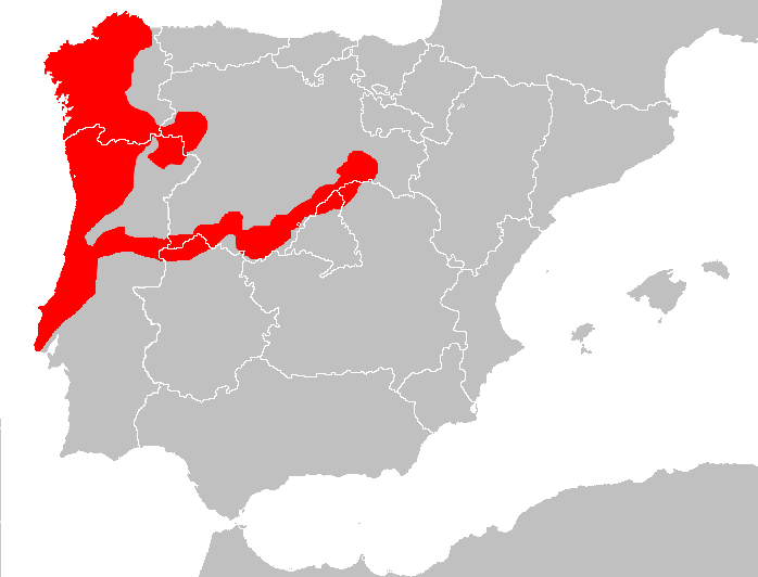 Sorex granarius distribution map.